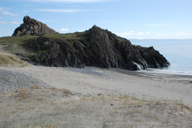 Carreg yr Imbill - Gimlet Rock Pwllheli Once a large plateau of granite, dominating the coast off Pwllheli, Carreg yr Imbill was extensively quarried for stone paving sets by the Liverpool and Pwllheli Granite Company, which was established in 1867.